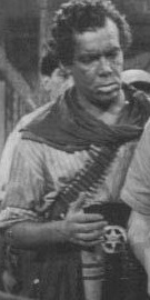 Joaquin Petrosino- actor